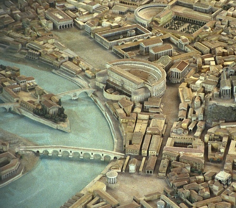 The area of southern Circus Flaminius in Rome, shot in Museo della Civiltà Romana in Rome